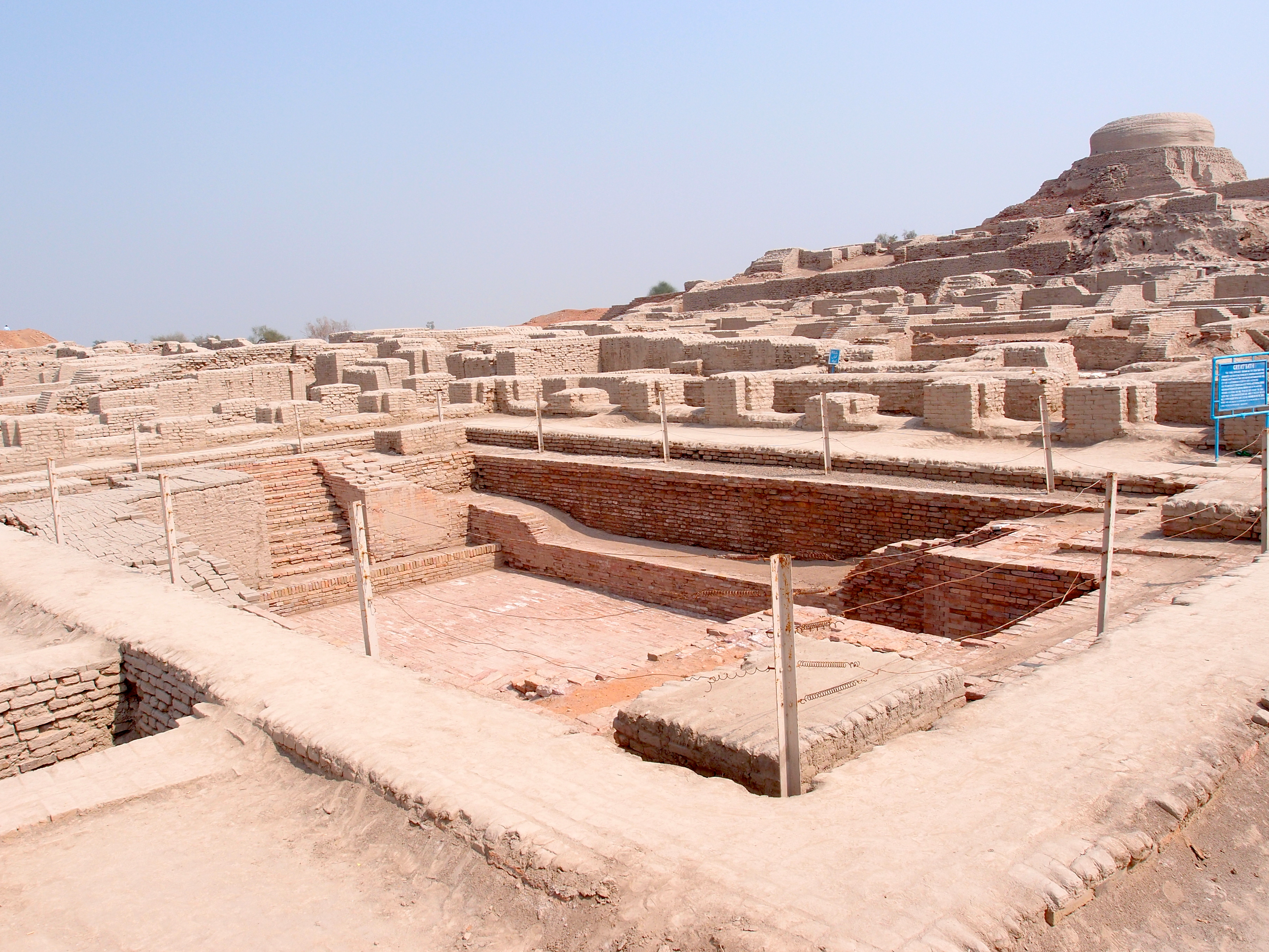 Excavated ruins of Mohenjo-daro, with the Great Bath in the foreground and the granary mound in the background